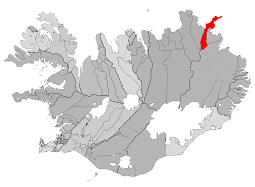 Based on Municipalities of Iceland.png.